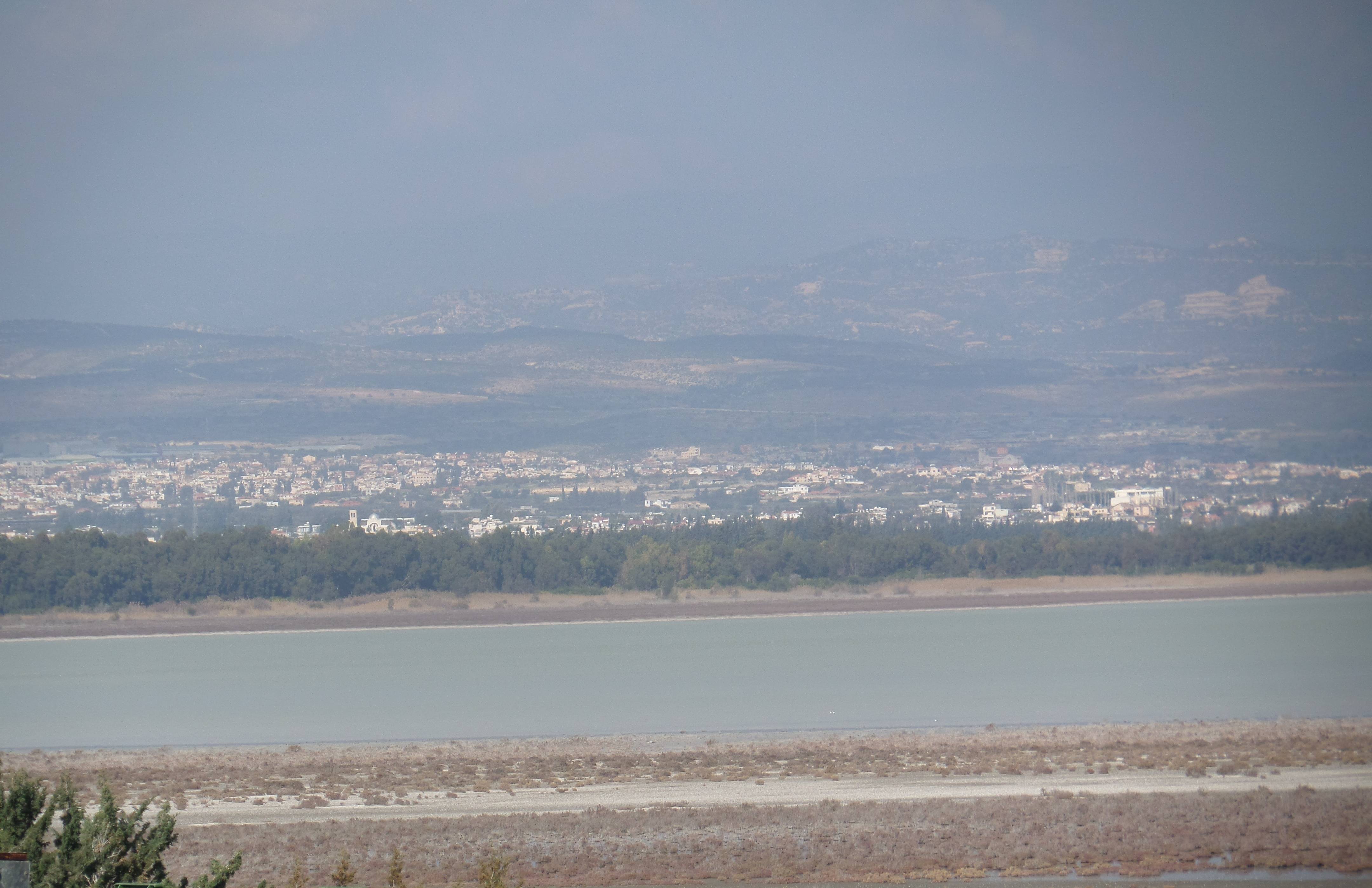 Limassol Salt Lake